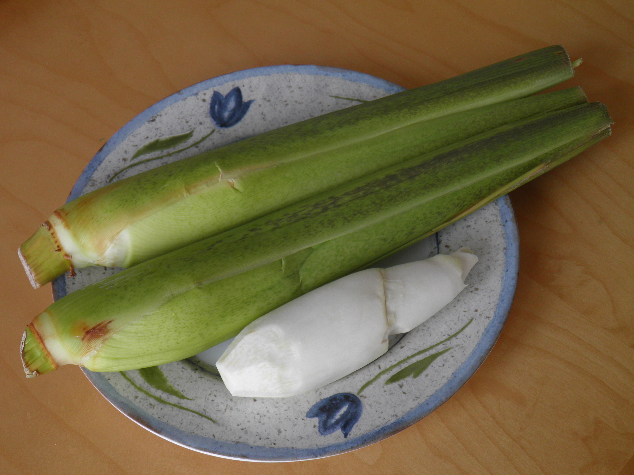 Manchurian wild rice (Zizania latifolia) stems, before and after peeling. From the local market in Chenyu, Yuhuan, Zhejiang province, PR China